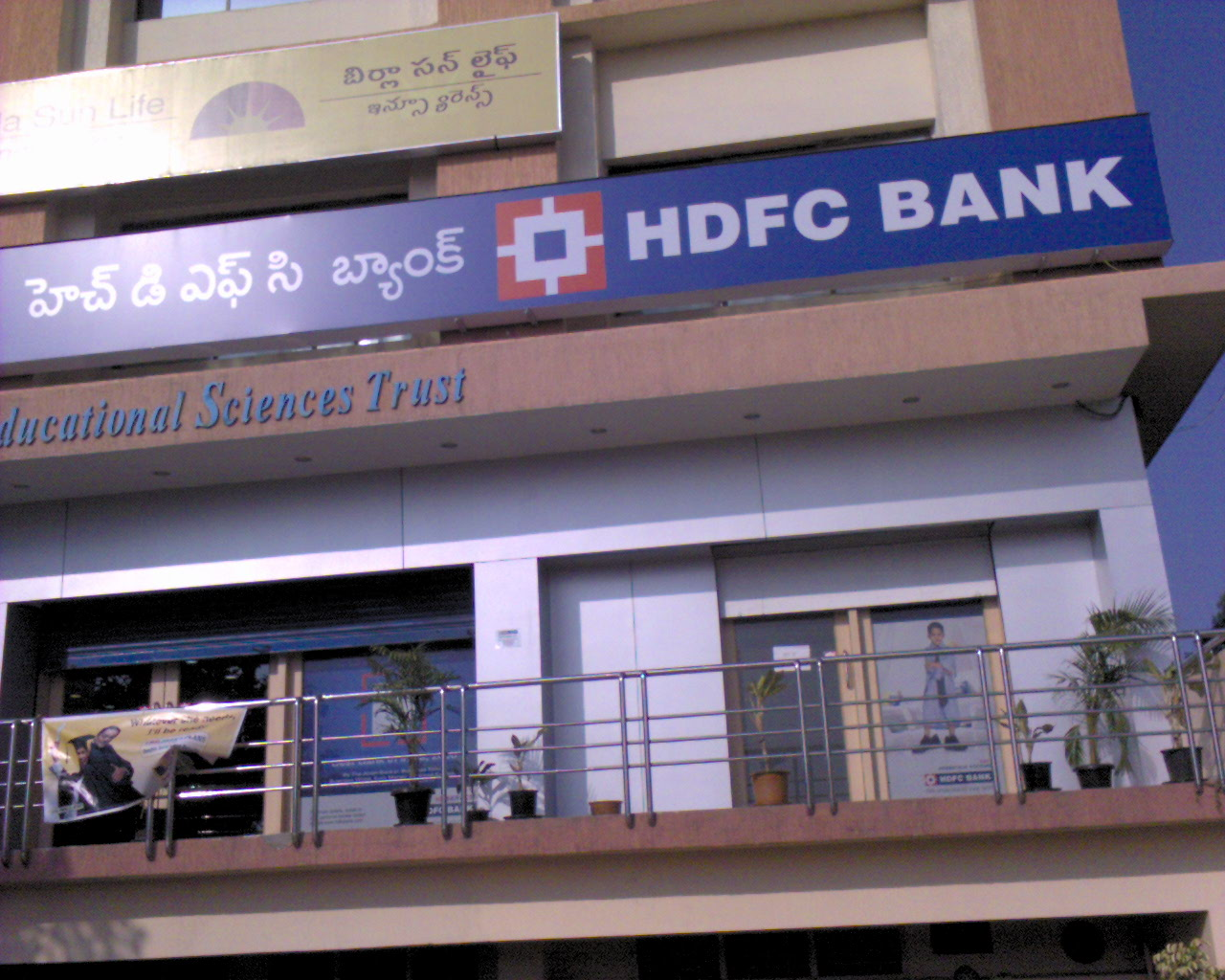 An HDFC Bank Branch in Hyderabad